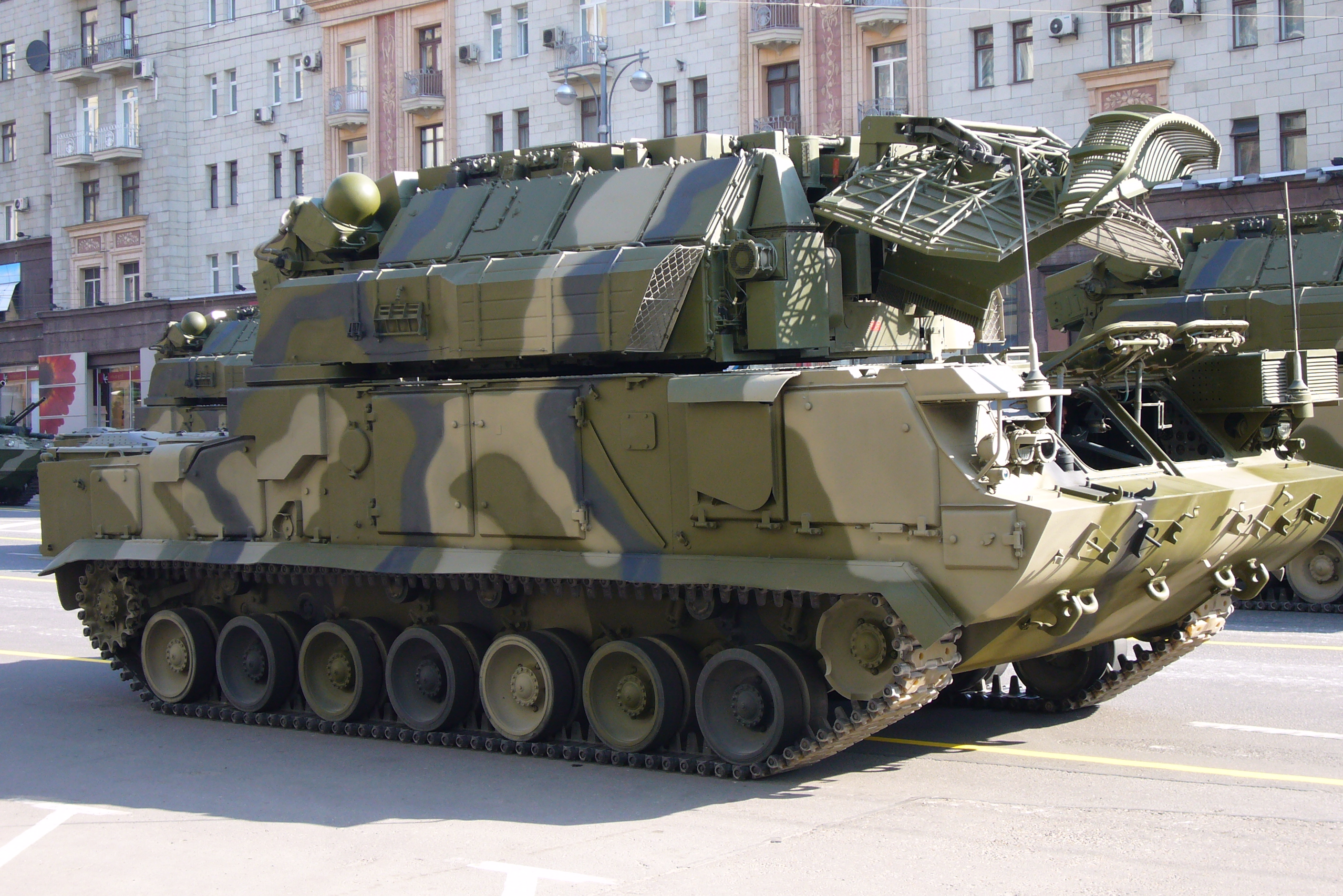 Victory Day Anniversary Parade Rehearsal, Tverskaya Street, Moscow, Russia, May 5, 2008.